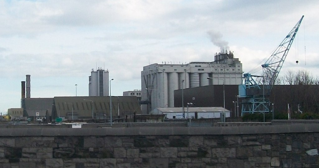 Odlums Flour Mill at Dublin Port This landmark building dates from 1924.